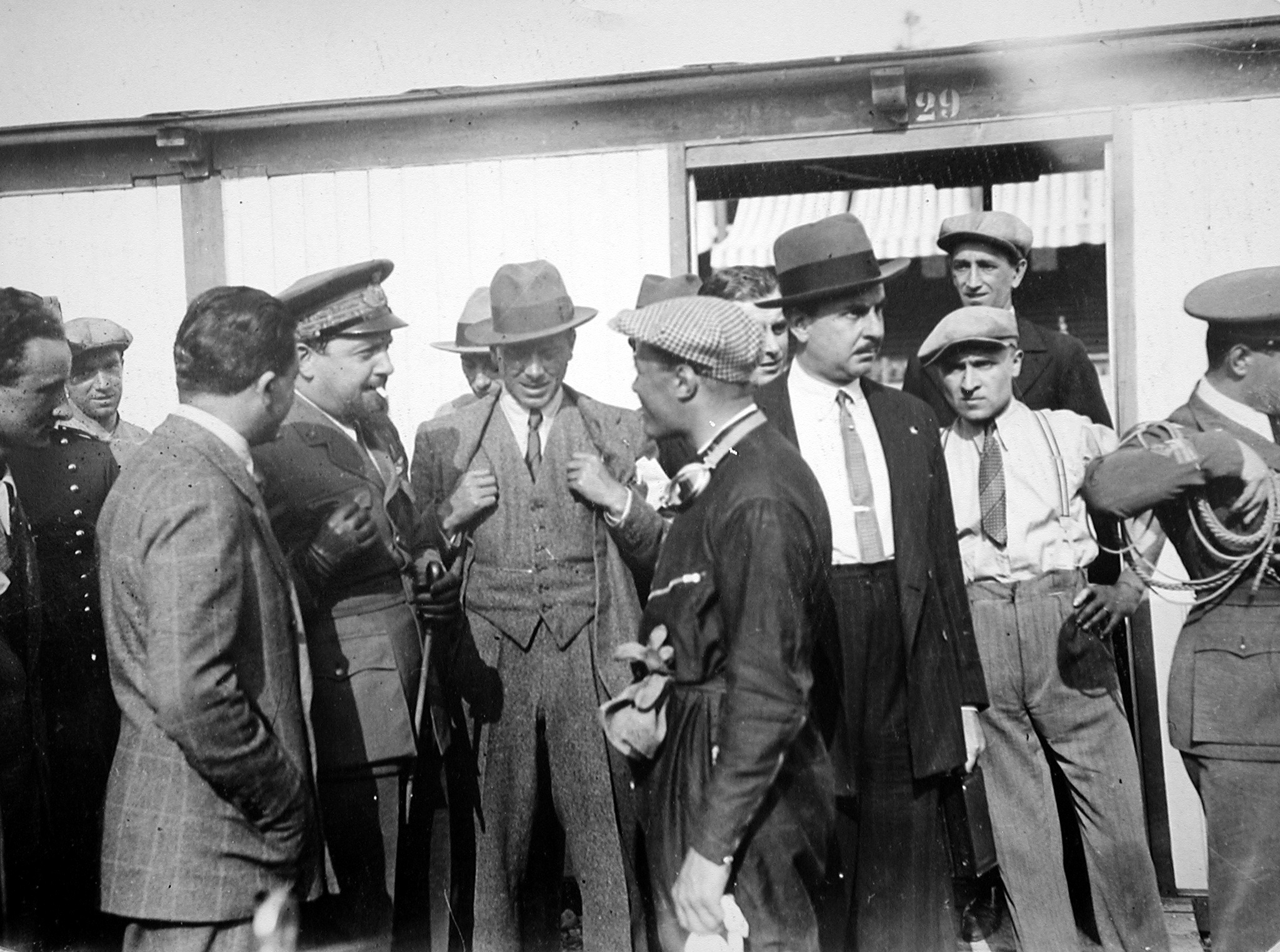 Targa Florio: in center Italo Balbo (4th from left) and Prospero Gianferrari (6th).